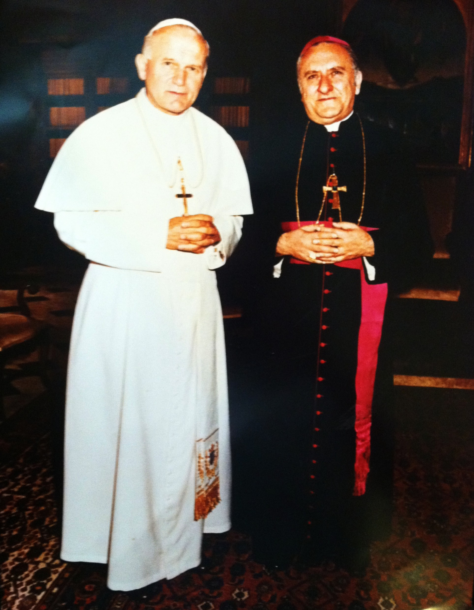 Bishop garmo with his holiness pope john paul ii